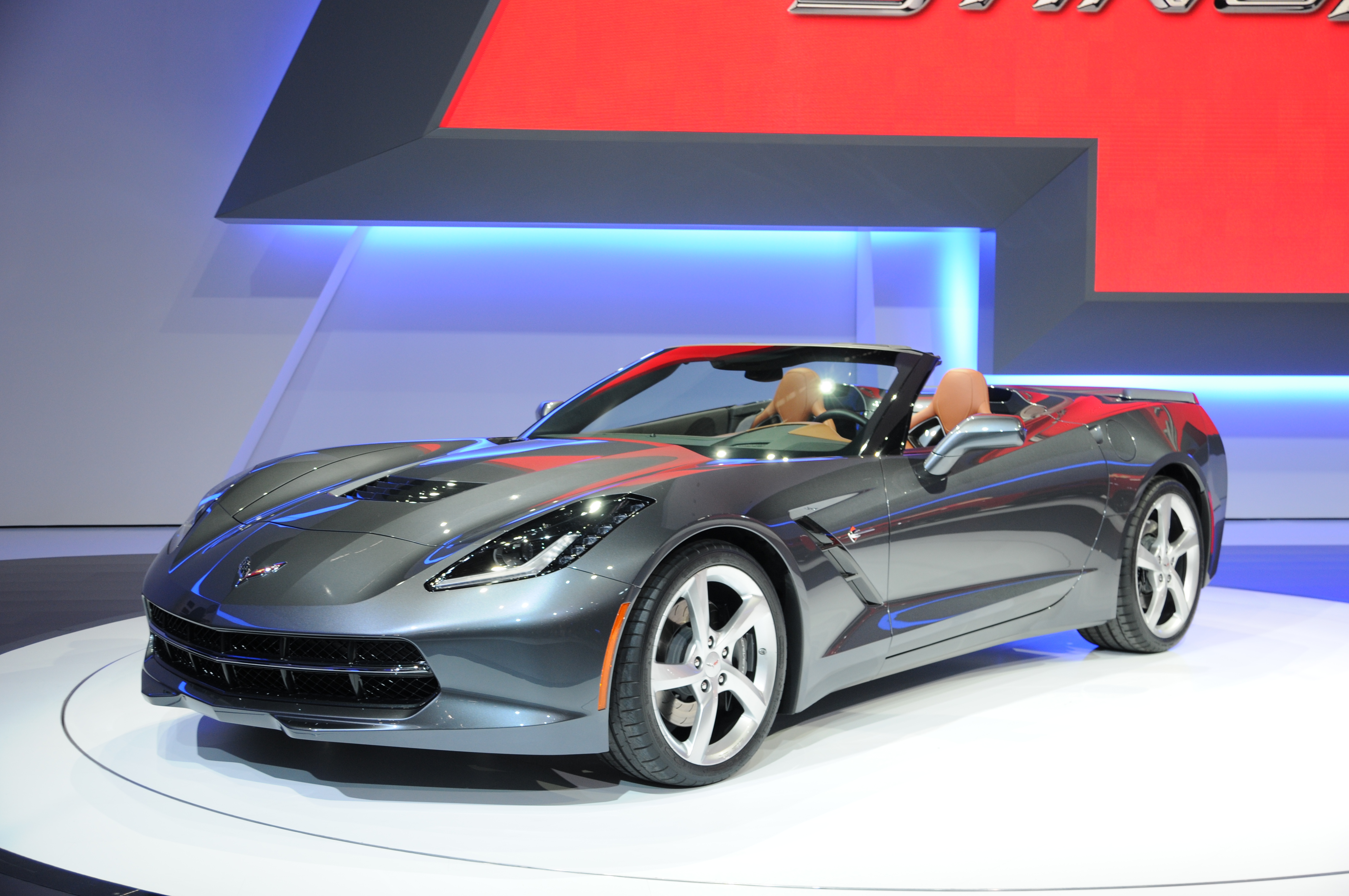 Geneva Motor Show 2013 (photos taken on the first press day)